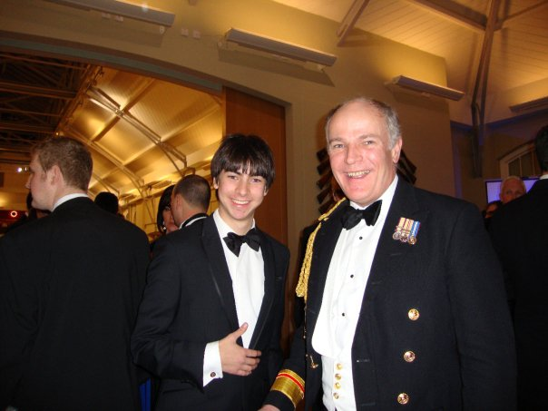 Admiral Jarvis at a Cadet Forces charity event at the Honourable Artillery Company, London.